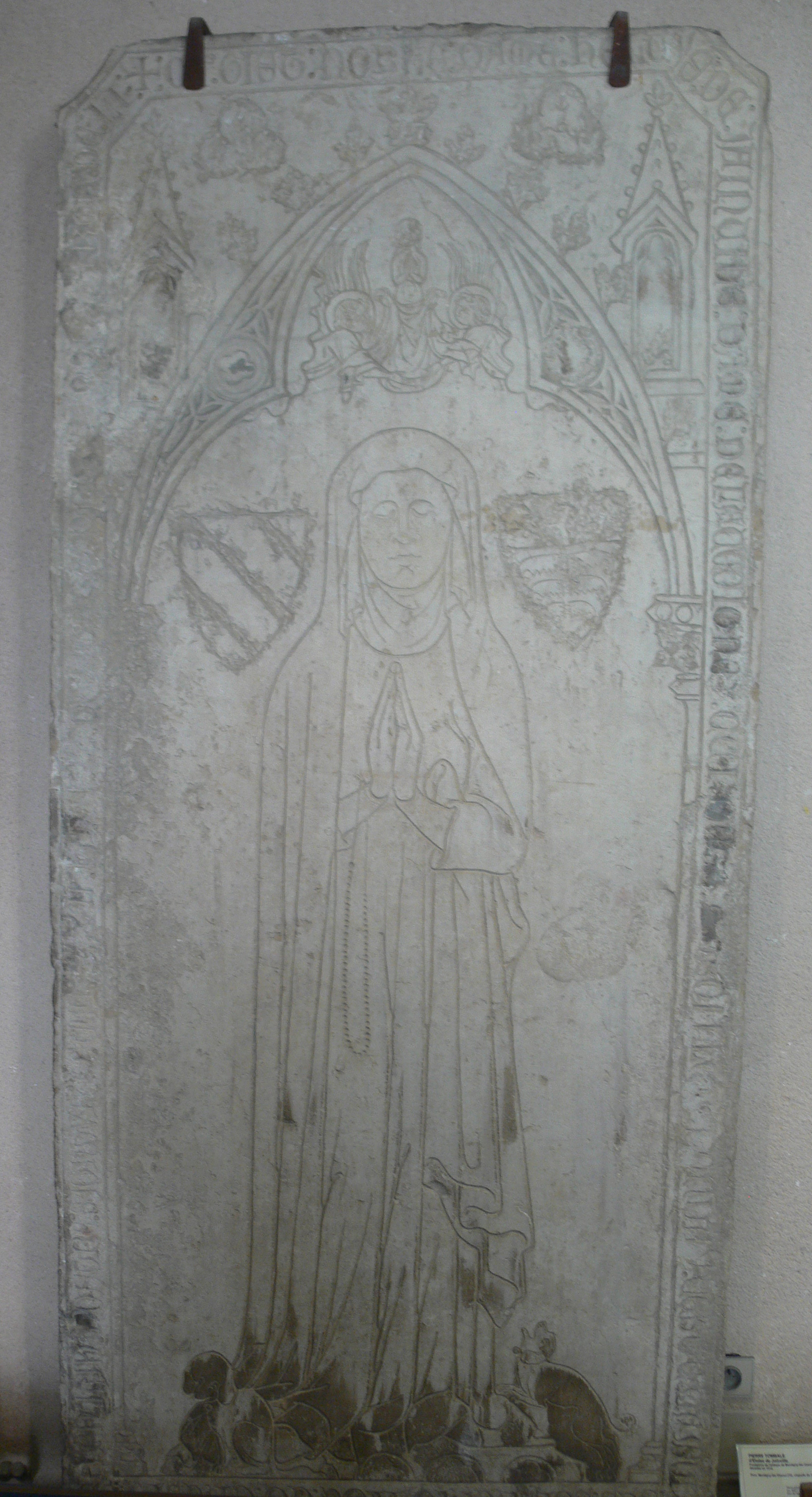 Tombstones of Héloïse de Joinville, fonder of the convent of Montigny-lès-Vesoul (dead 1312). Was in the convent church. Nowadays held at the musée Georges-Garret, Vesoul, 925.1.1